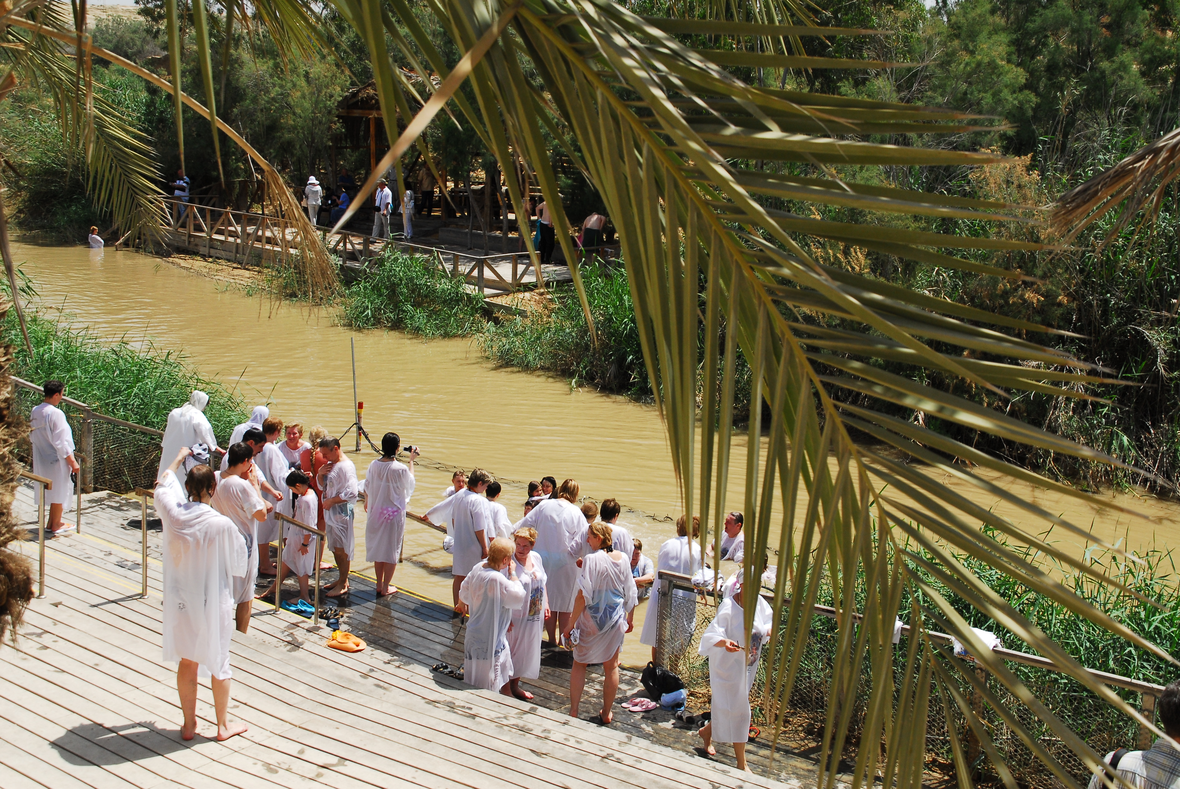 Religion in Palestine